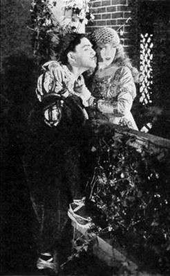 Still from the American comedy short film A Rambling Romeo (1922) with Neal Burns and Helen Darling, on page 60 of the April 1922 Film Fun.